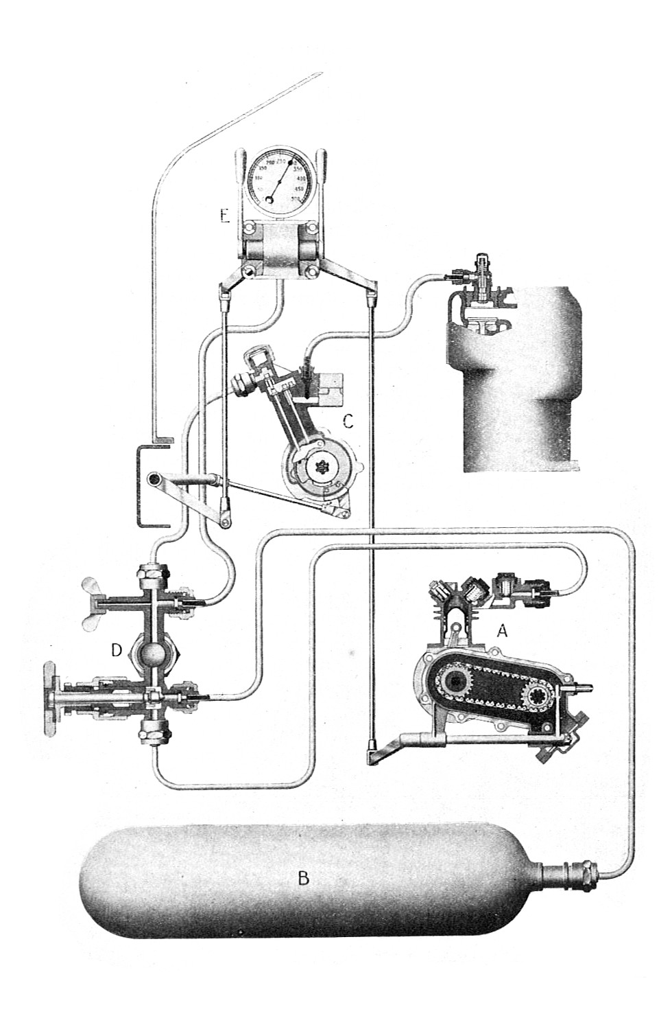 Fig. 4 Wolseley system of compressed air starting Compressed-air starting on an early luxury car, before powerful electrical systems became available. Scans from 'The Book of the Motor Car', Rankin Kennedy C.E., 1912 See other images from this source in Scans from 'The Book of the Motor Car'